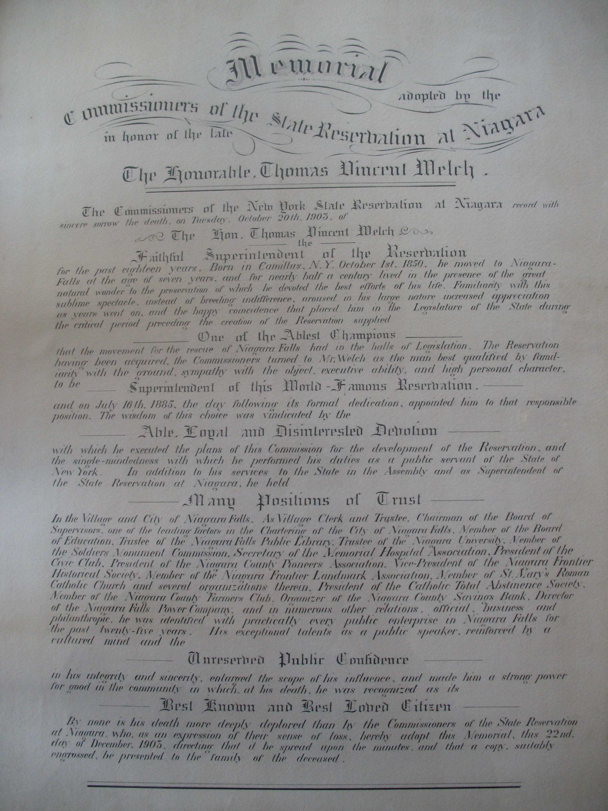 The memorial adopted by the Commissioners of the State Reservation at Niagara in honor of the late, the Honorable Thomas Vincent Welch. The parchment represents their entry in the minutes of that day and was presented to the family as a memorial of his passing and their commemoration of him.